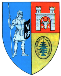 Coat of arms of Alba County, Romania.